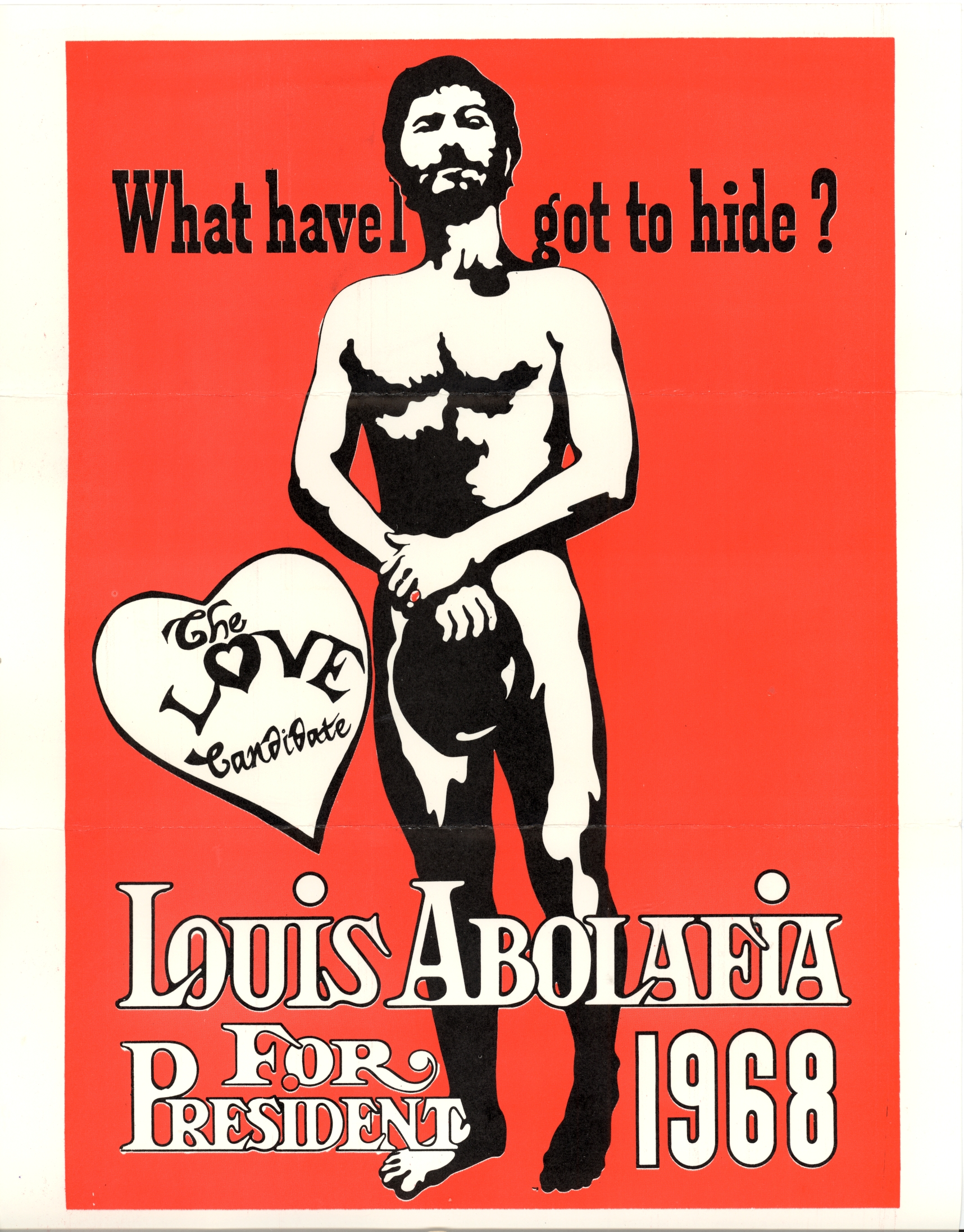 A poster used in Louis Abolafia's 1968 Presidential campaign.